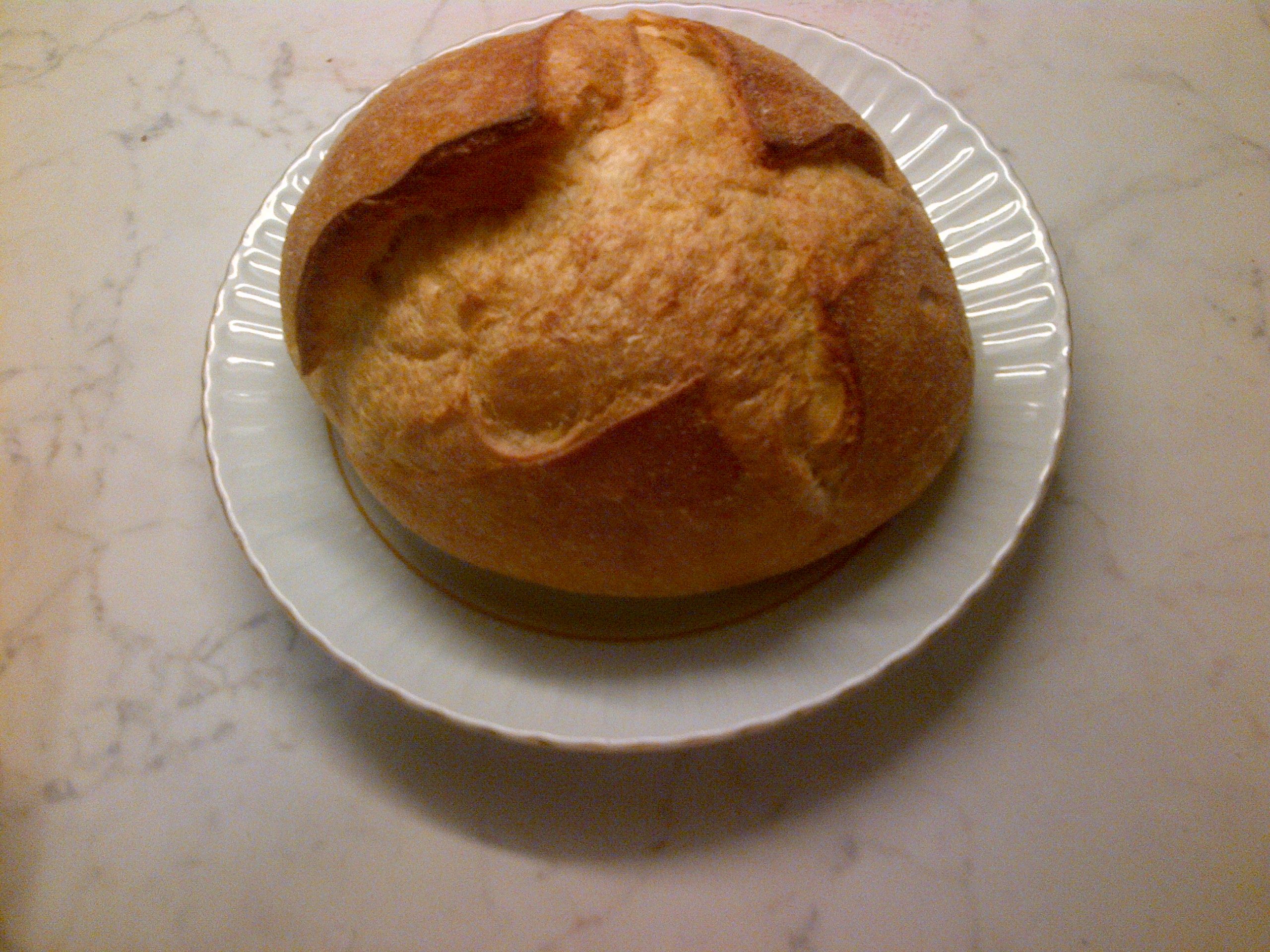 Turkish bread loaf "somun".